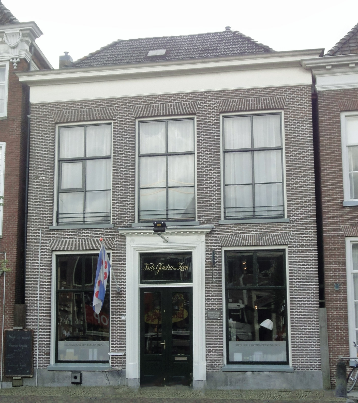 Pand met omlijste ingang, grote zesruitsvensters en hoge verdieping onder schilddak (Weduwe Joustra) 92″ N, 5° 39′ 50.1″ E